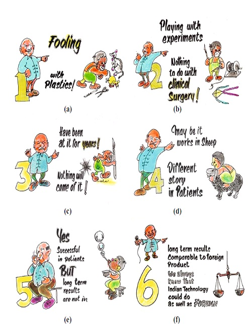 Cartoons describing the public perception of the Chitra valve